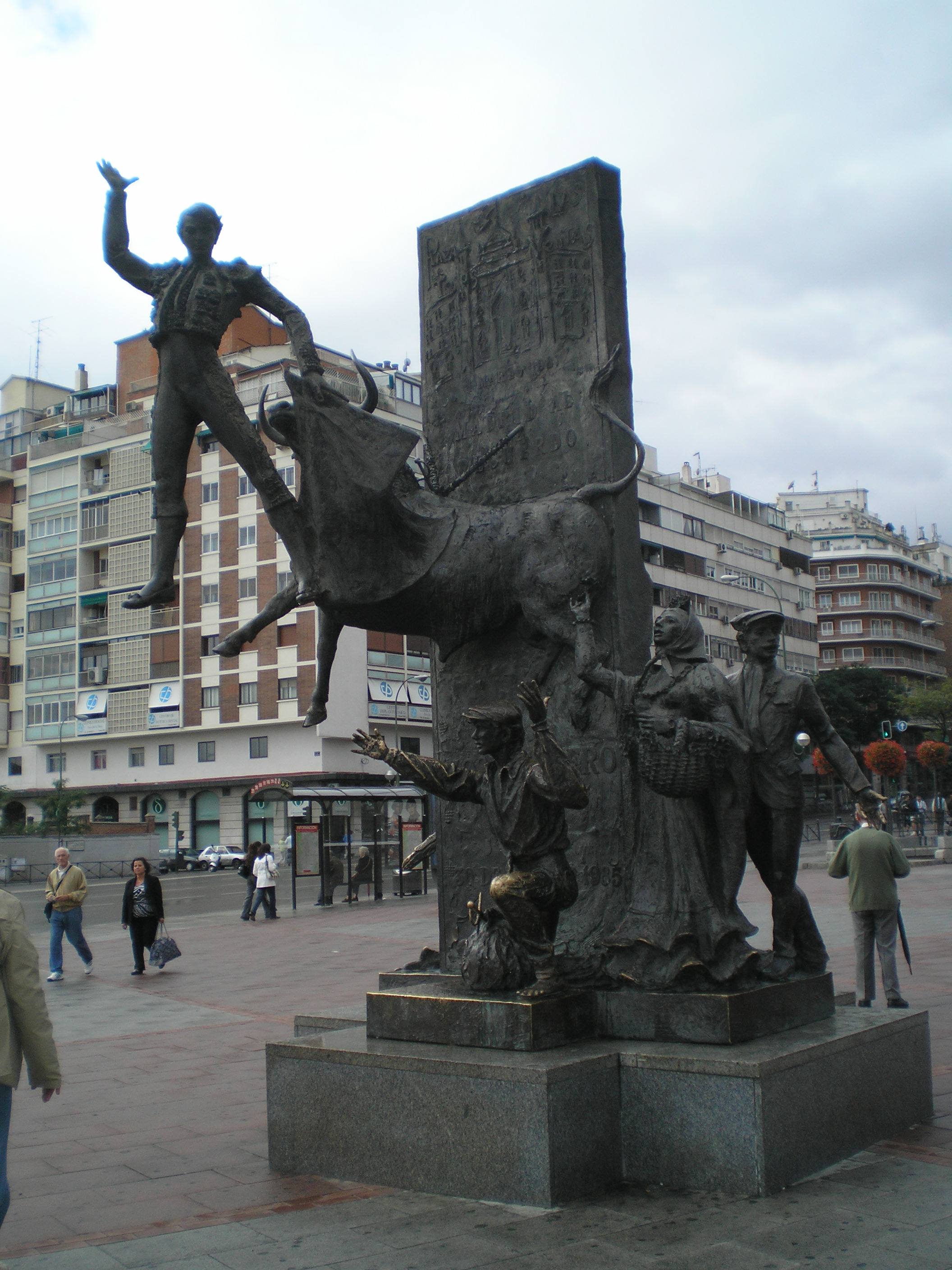 Monument to Yiyo next to Las Ventas Bullring, Madrid.